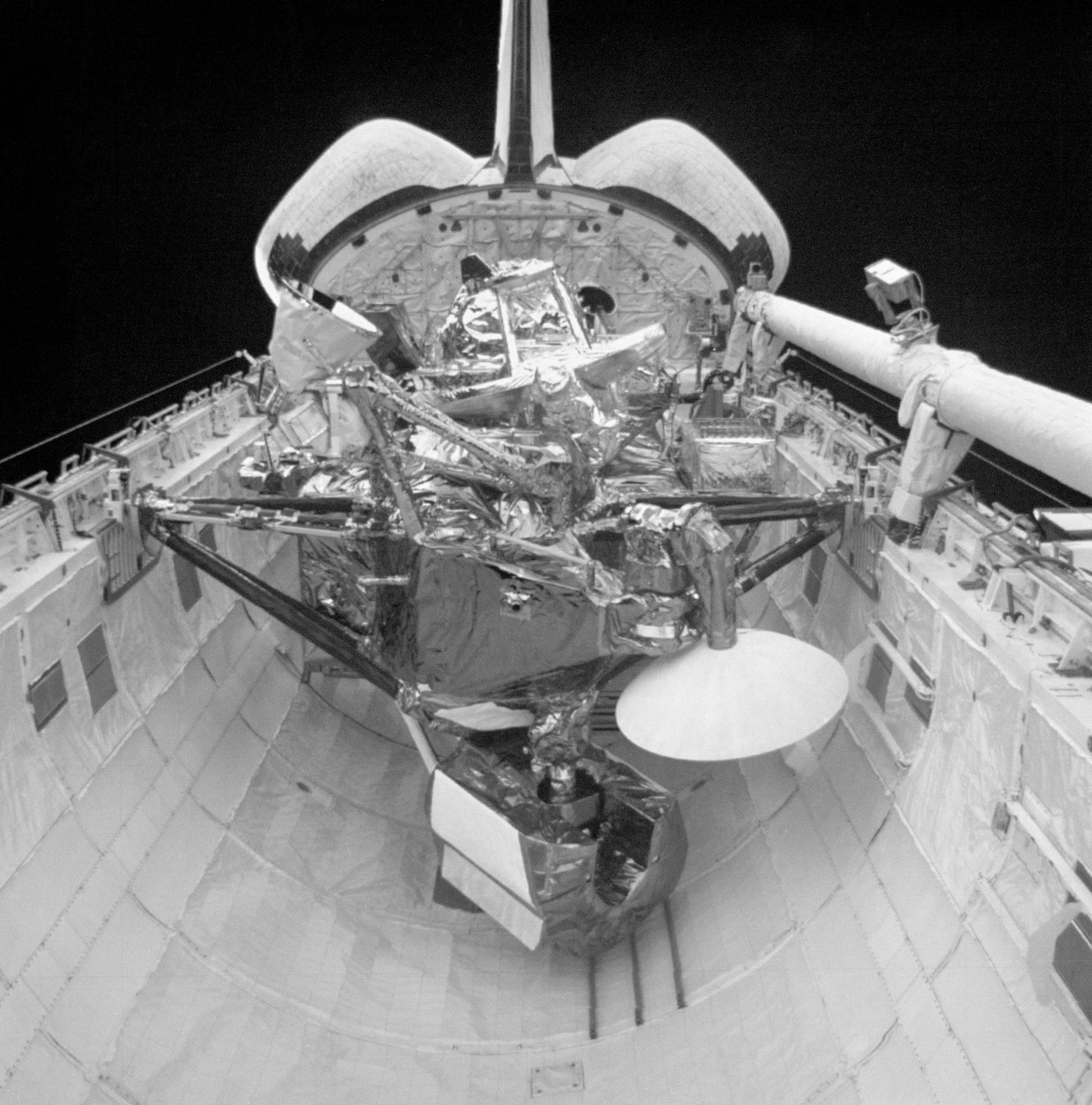 The Upper Atmosphere Research Satellite (UARS), is documented in the payload bay (PLB) of the earth-orbiting Discovery, Orbiter Vehicle (OV) 103. UARS is scheduled for deploy on flight day three of the STS-48 mission. UARS components visible in this image include (front to back): the Solar Stellar Pointing Platform (SSPP) (at bottom); the stowed high-gain antenna (HGA) (right); Particle Environment Monitor (PEM) (cone at upper left); the Microwave Limb Sounder (MLS) antenna dish (center); and the Cryogenic Limb Array Etalon Spectrometer (CLAES) (center back). The stowed remote manipulator system (RMS) arm is seen along the port side sill longeron. The vertical tail and the orbital maneuvering system (OMS) pods appear in the background against the blackness of space. This view was taken using an electronic still camera (ESC) as part of Development Test Objective (DTO) 648, Electronic Still Photography.